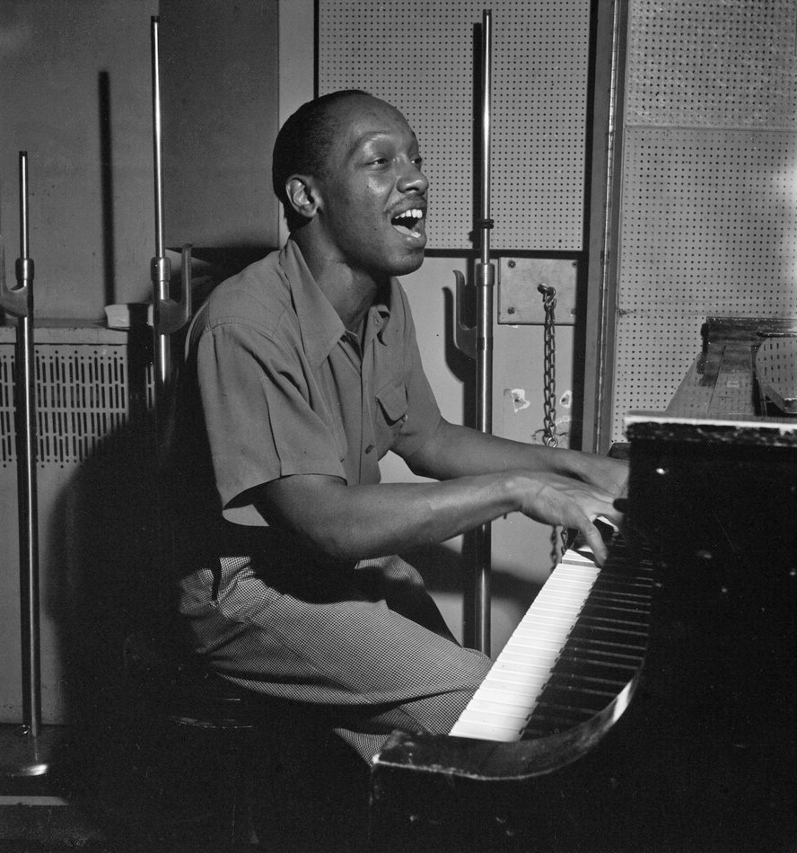 Portrait of Tadd Dameron, New York, N.Y., between 1946 and 1948. Photography by William P. Gottlieb.